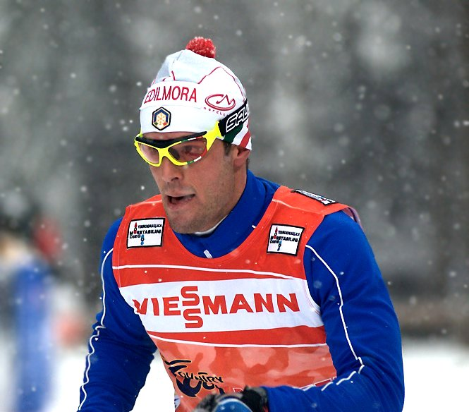 Renato Pasini at the Tour de Ski 2010 in Oberhof